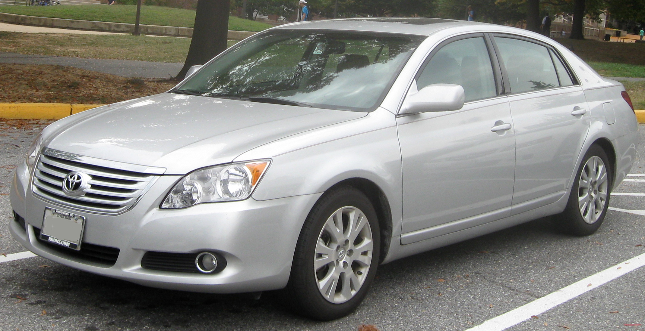 2008 Toyota Avalon photographed in College Park, Maryland, USA.